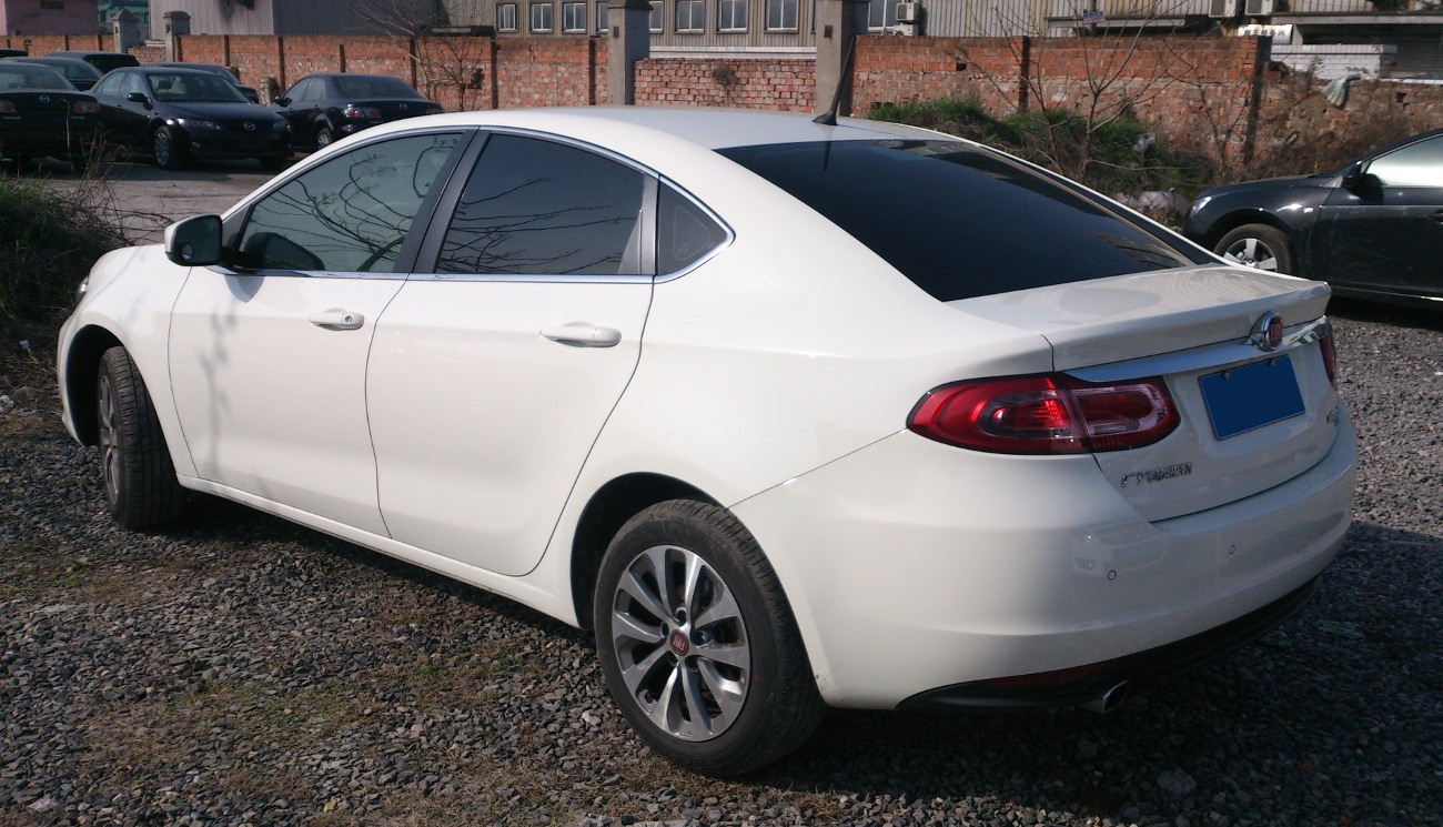 Fiat Viaggio photographed in Shanghai, China.